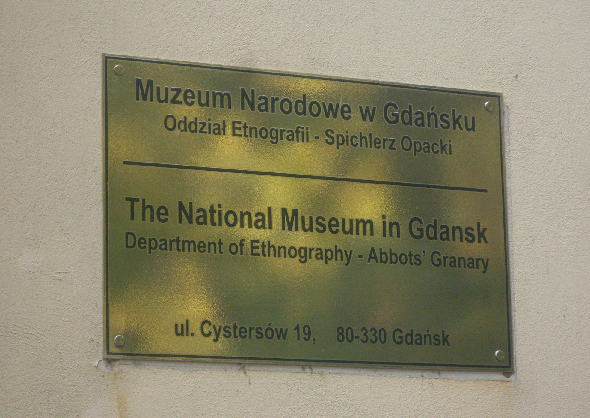 Information board of Departament of Ethnography of National Museum in Gdańsk.